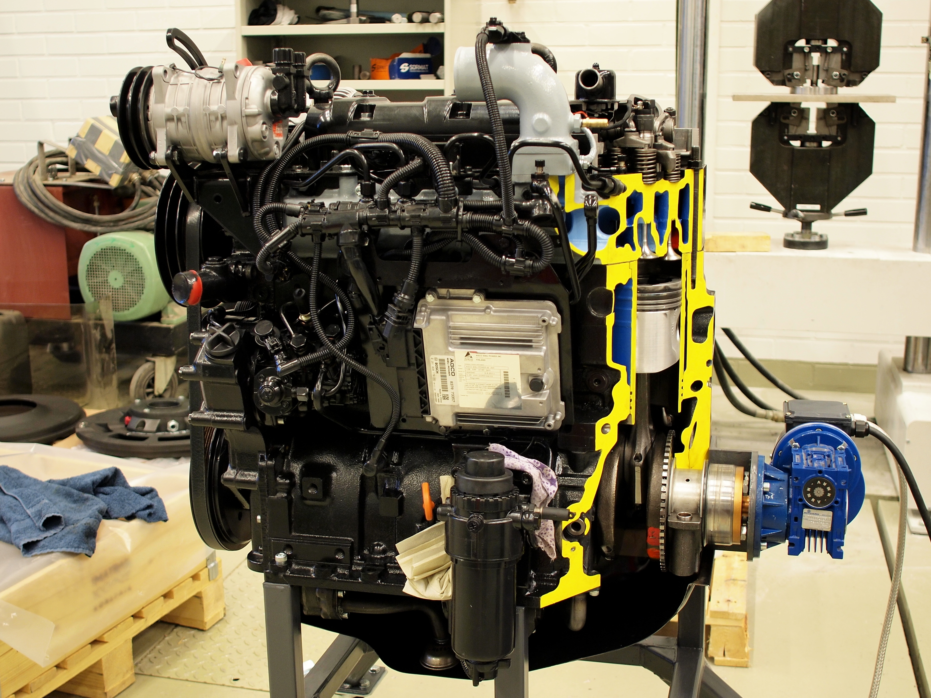 Sectioned 2011 AGCO Sisu Power 49 AWI engine. It is a 128-kilowatt four-cylinder diesel engine manufactured by AGCO Sisu Power Incorporated in Linnavuori, Finland. Originally designed for off-road machinery applications and used in, for example, the Valtra N-series (N113 and N123) tractors. This sectioned model is property of Lappeenranta University of Technology.